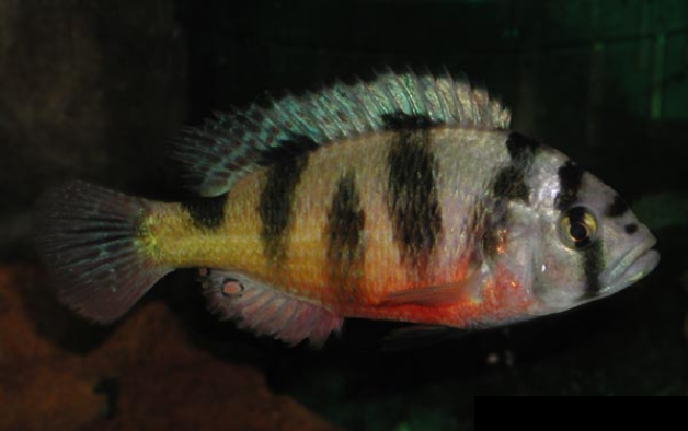 Photo: Dr. Jessica Drake Astatotilapia latifasciata New version without watermark, used with permission under CC2.5 Attrib. ShareAlike.